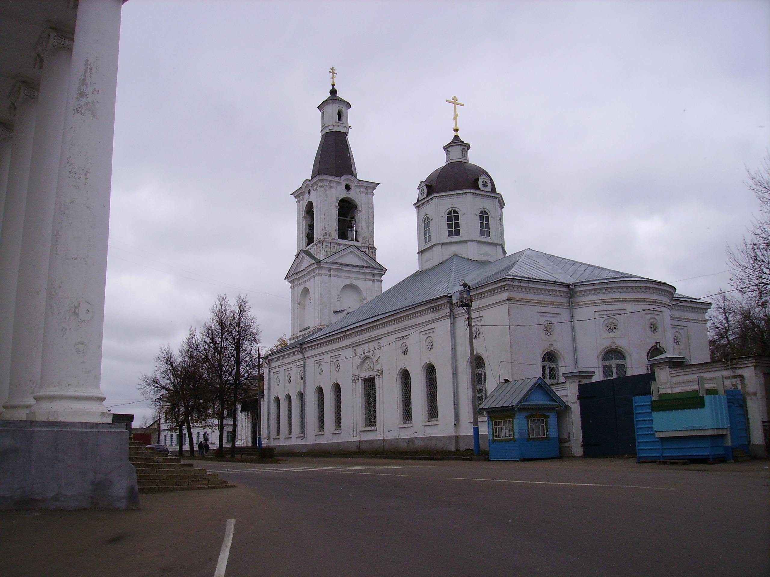 Arzamas. Church Life-giving Spring (Built in 1794)